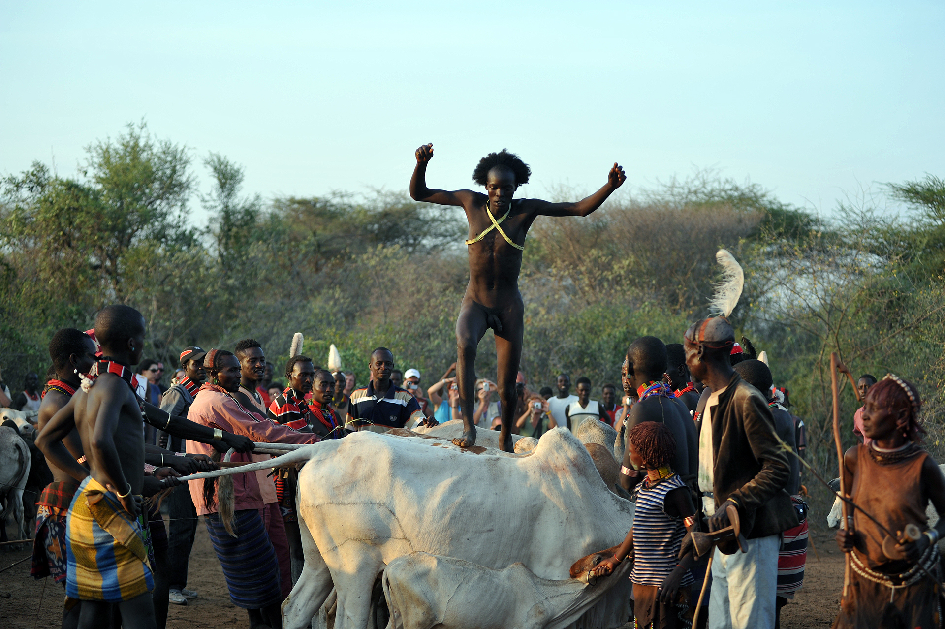 People and places in the Omo Valley, Ethiopia.